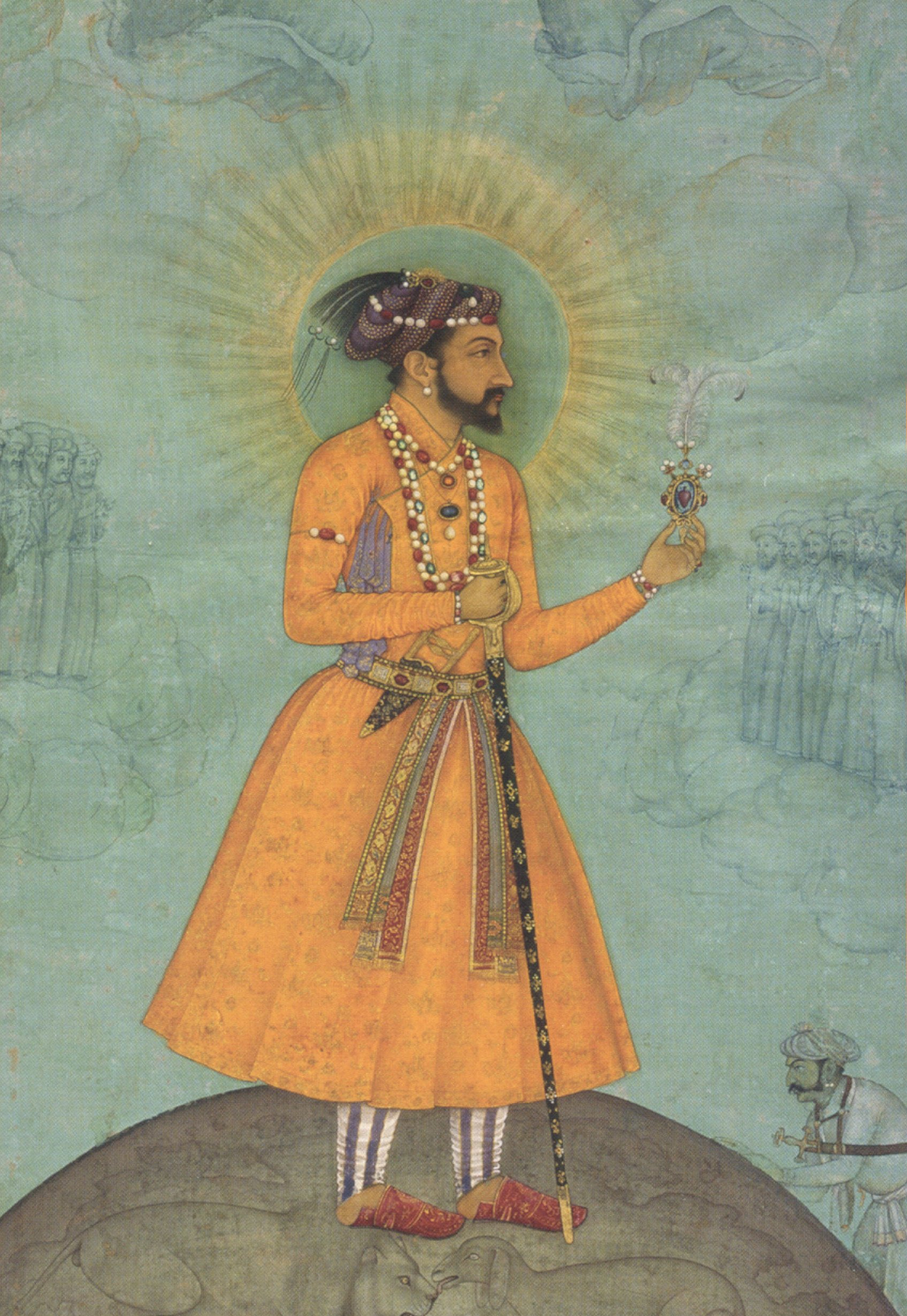 Jujhar Singh Bundela Kneels in Submission to Shah Jahan, signed Bichitr, c. 1630, Chester Beatty Library